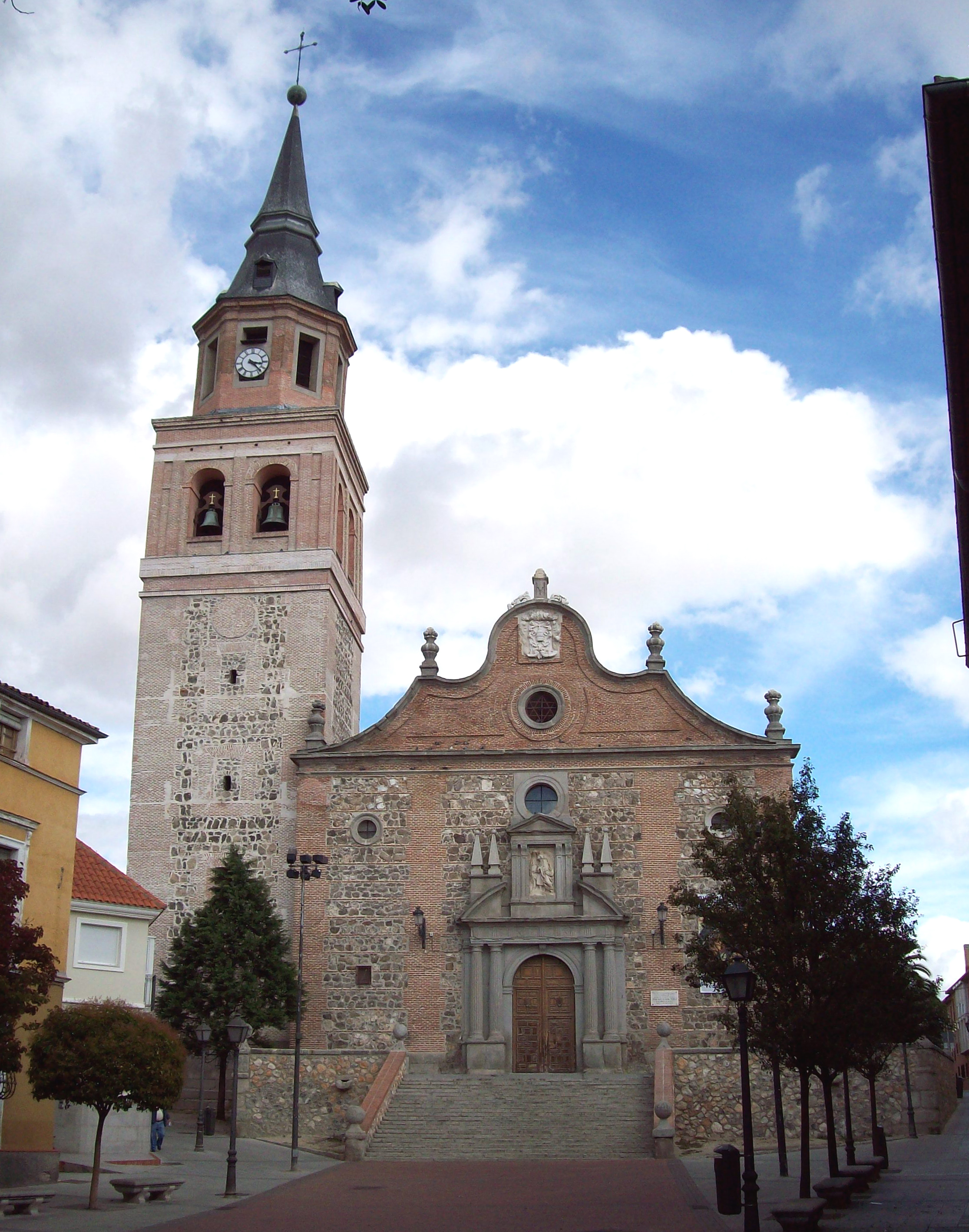 South-west façade of the Church of St Peter ad Vincula in Madrid (Spain).